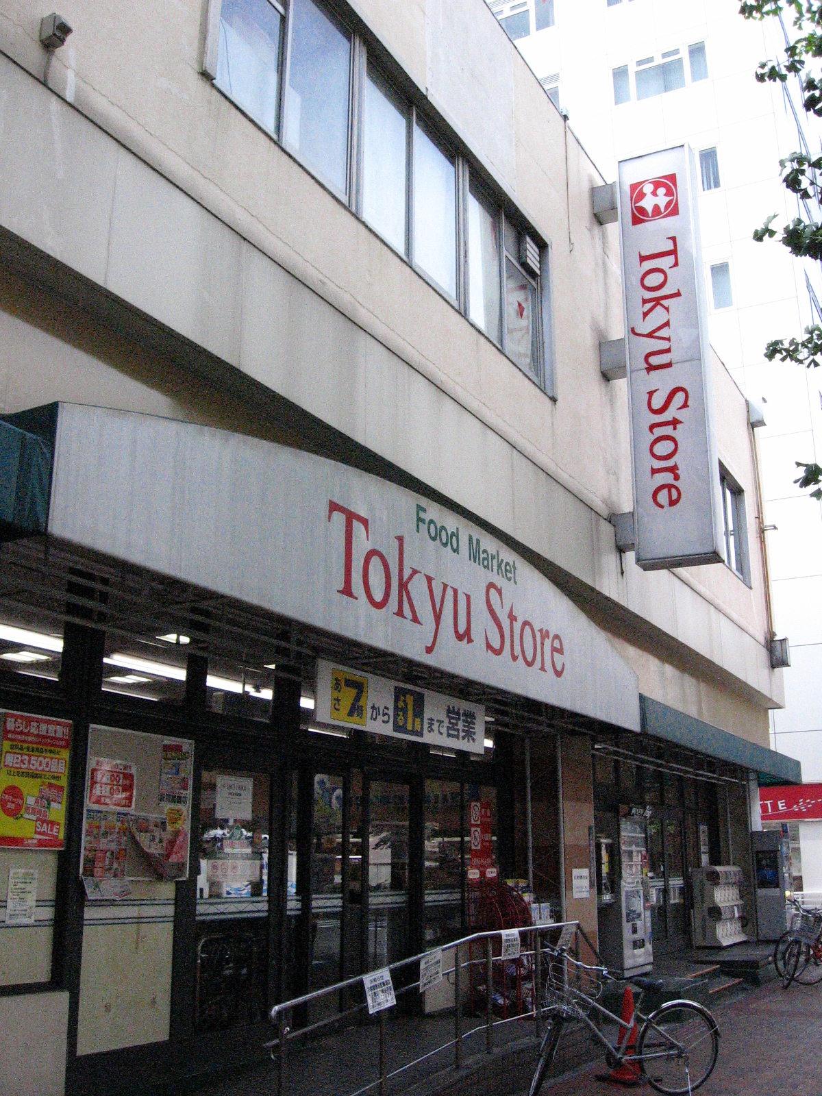 Mitaka Tokyu Store. (Nakacho, Musashino, Tokyo)